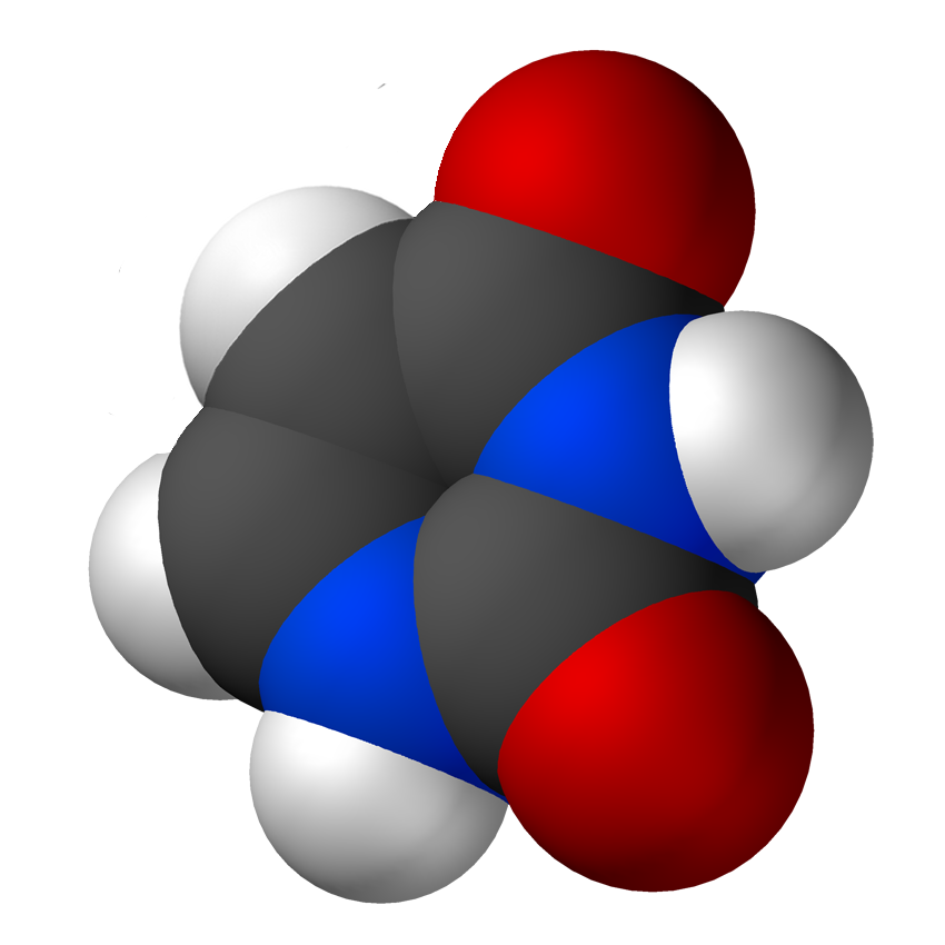 Uracil molecule model